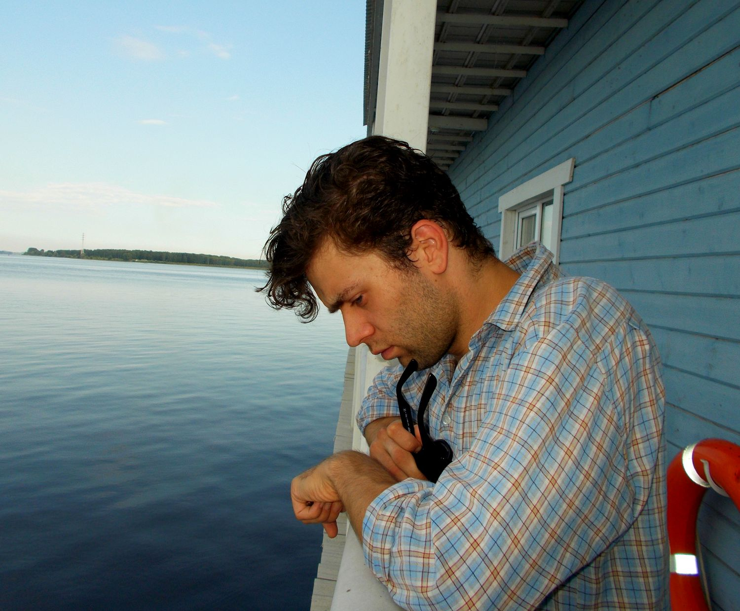 Йохан Юргенс (Johann Jürgens) немецкий актер театра и кино, Россия, июль 2013 г.